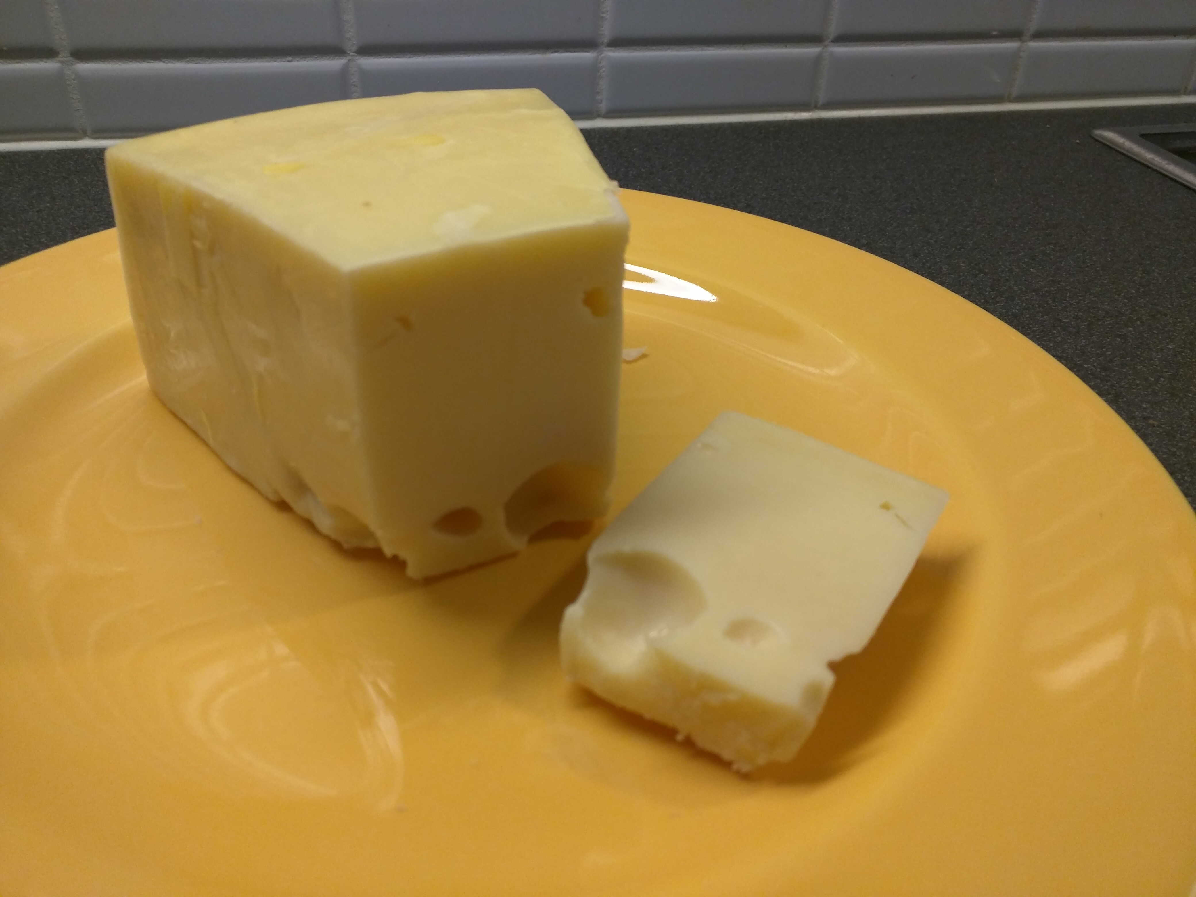 Swedish Greve cheese